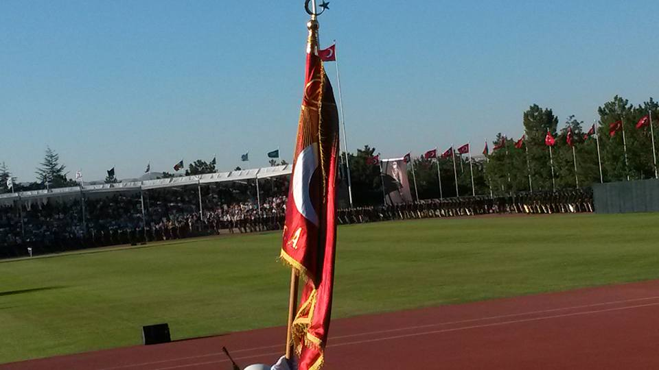 View from 167th semester graduation ceremony activities at the Turkish Military Academy, Ankara. With the participation of President Recep Tayyip Erdoğan (His Excellency). 2016 events in Military Academy Command.